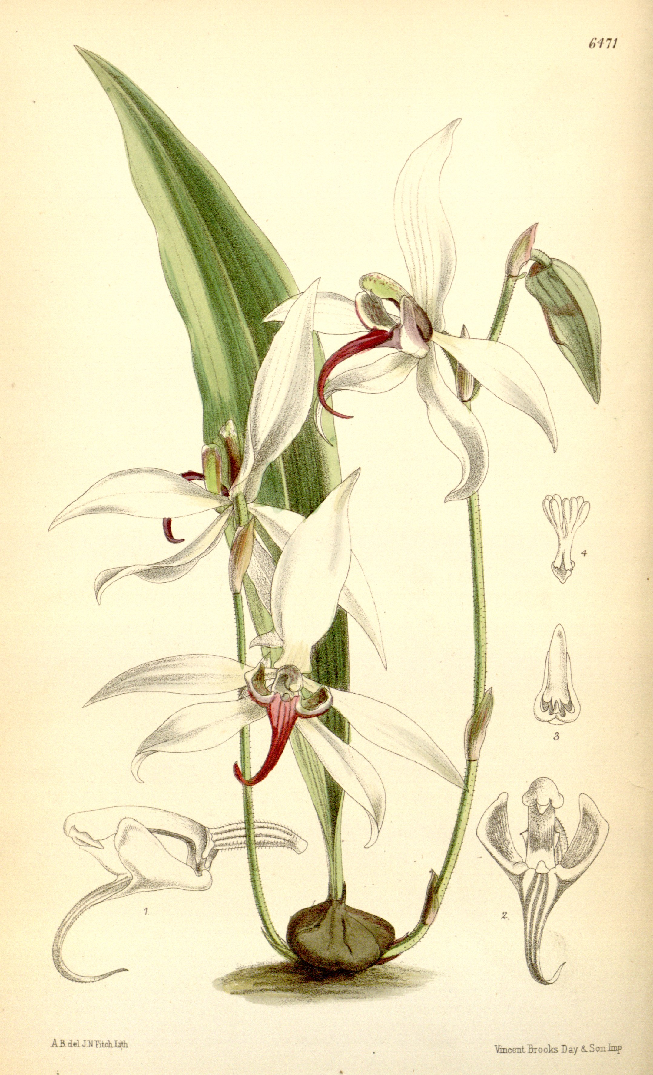 Illustration of Pachystoma thomsonianum (syn. of Ancistrochilus thomsonianus)